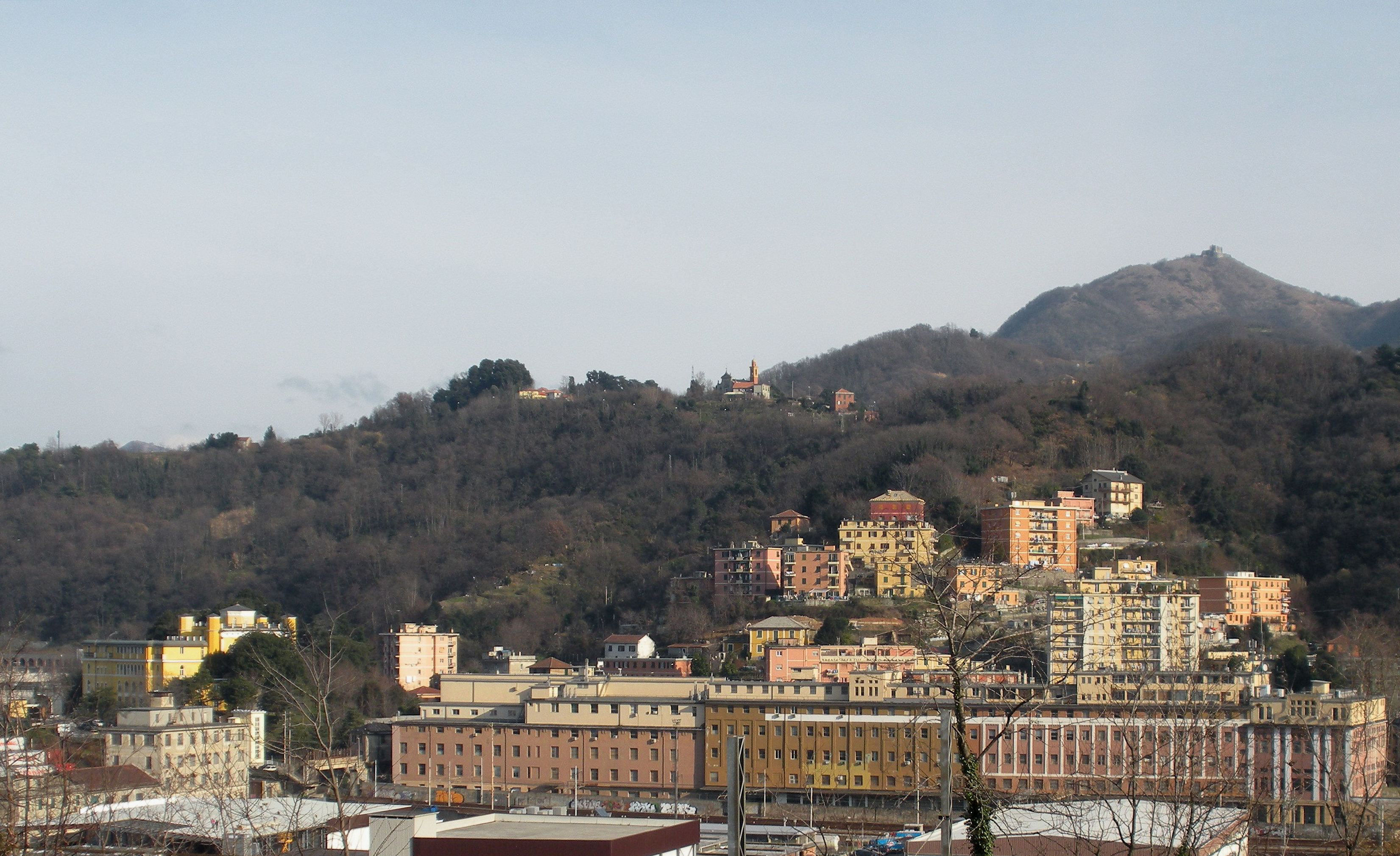 Genoa (Italy), quarter of Bolzaneto, Brasile hill